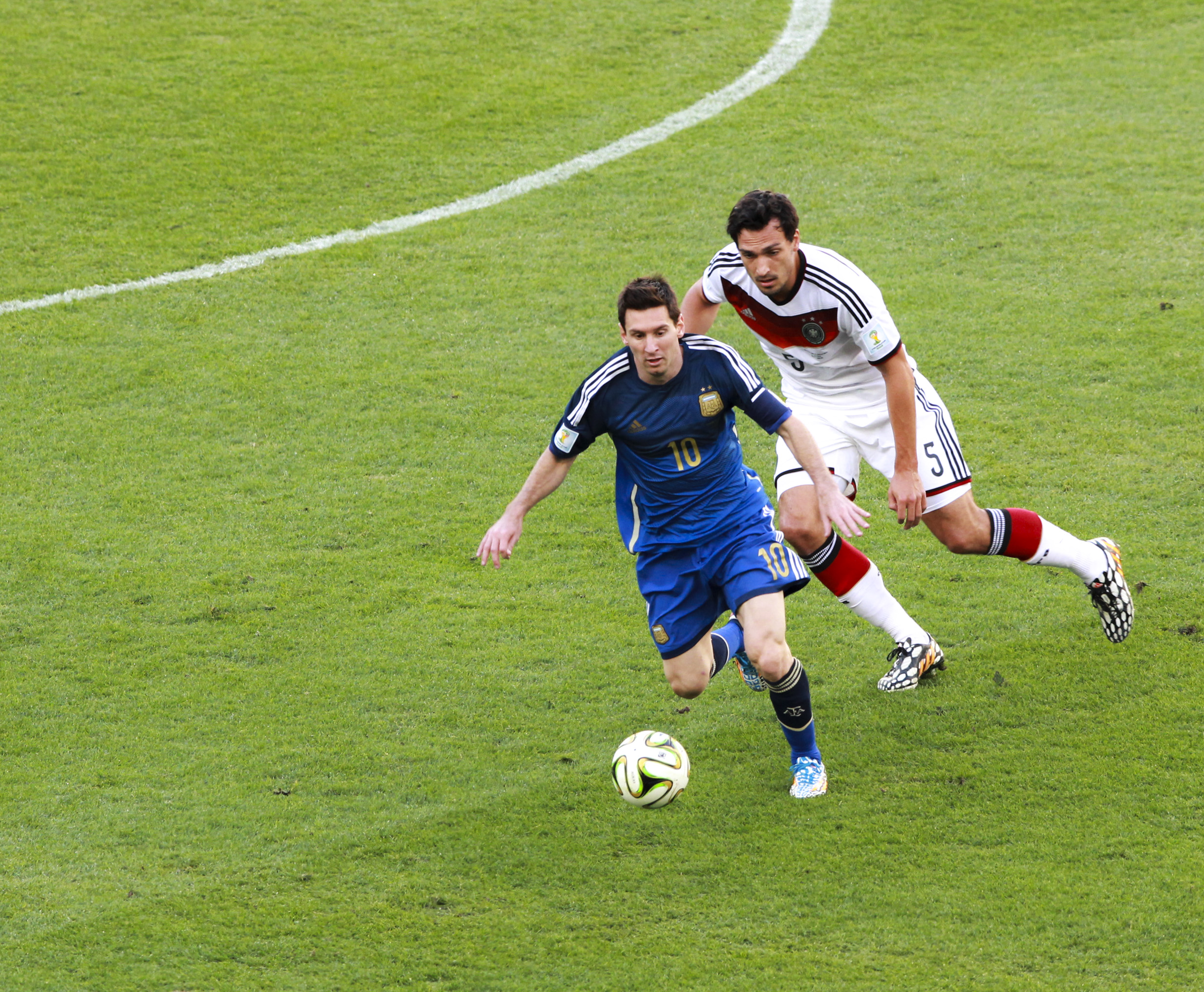 The final match of World Cup 2014 between Germany and Argentina 2014-07-13